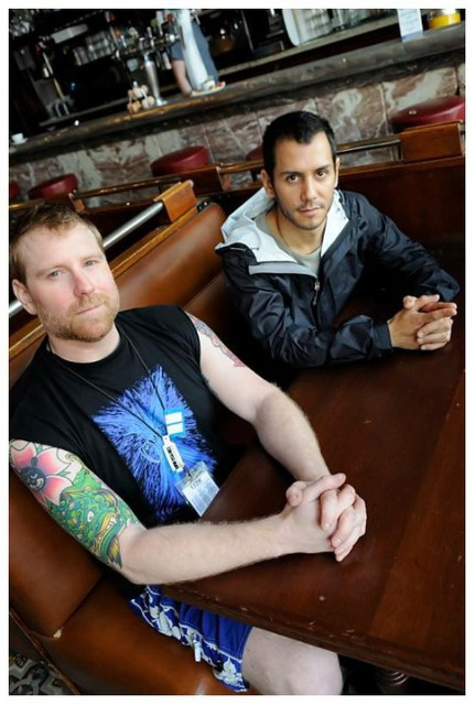 Paul Masvidal & Sean Reinert of CYNIC, taken in Paris, France (2010)photo by [V.CHASSAT]